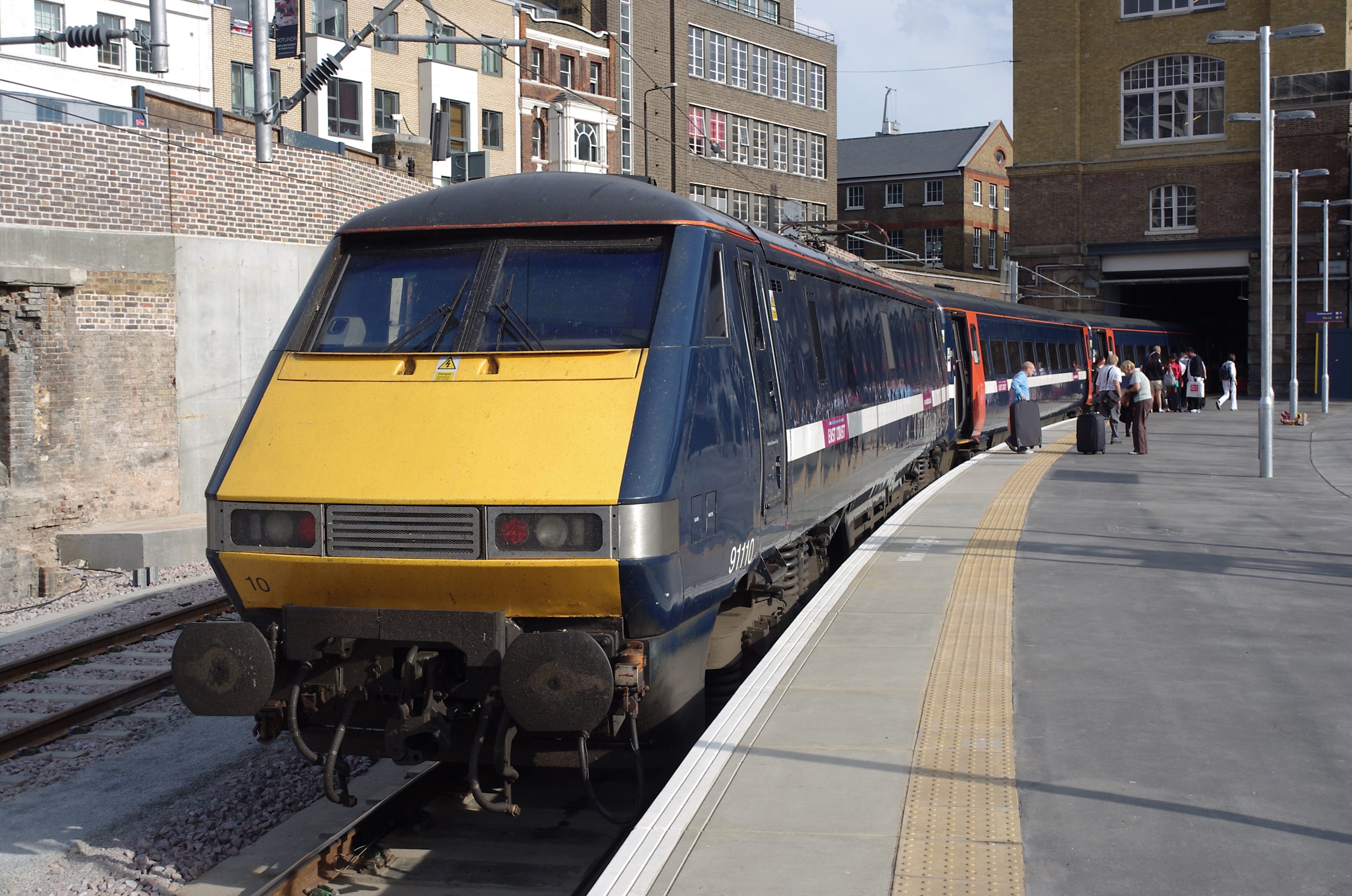 East Coast 91110 stands at London King's Cross railway station.